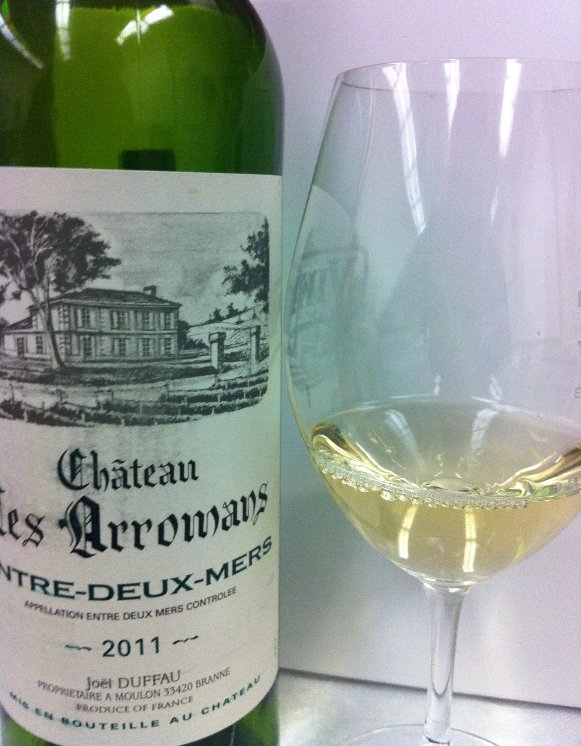 White Bordeaux wine from the Entre deux Mers wine region. The wine is a blend of Sauvignon blanc and Semillon.